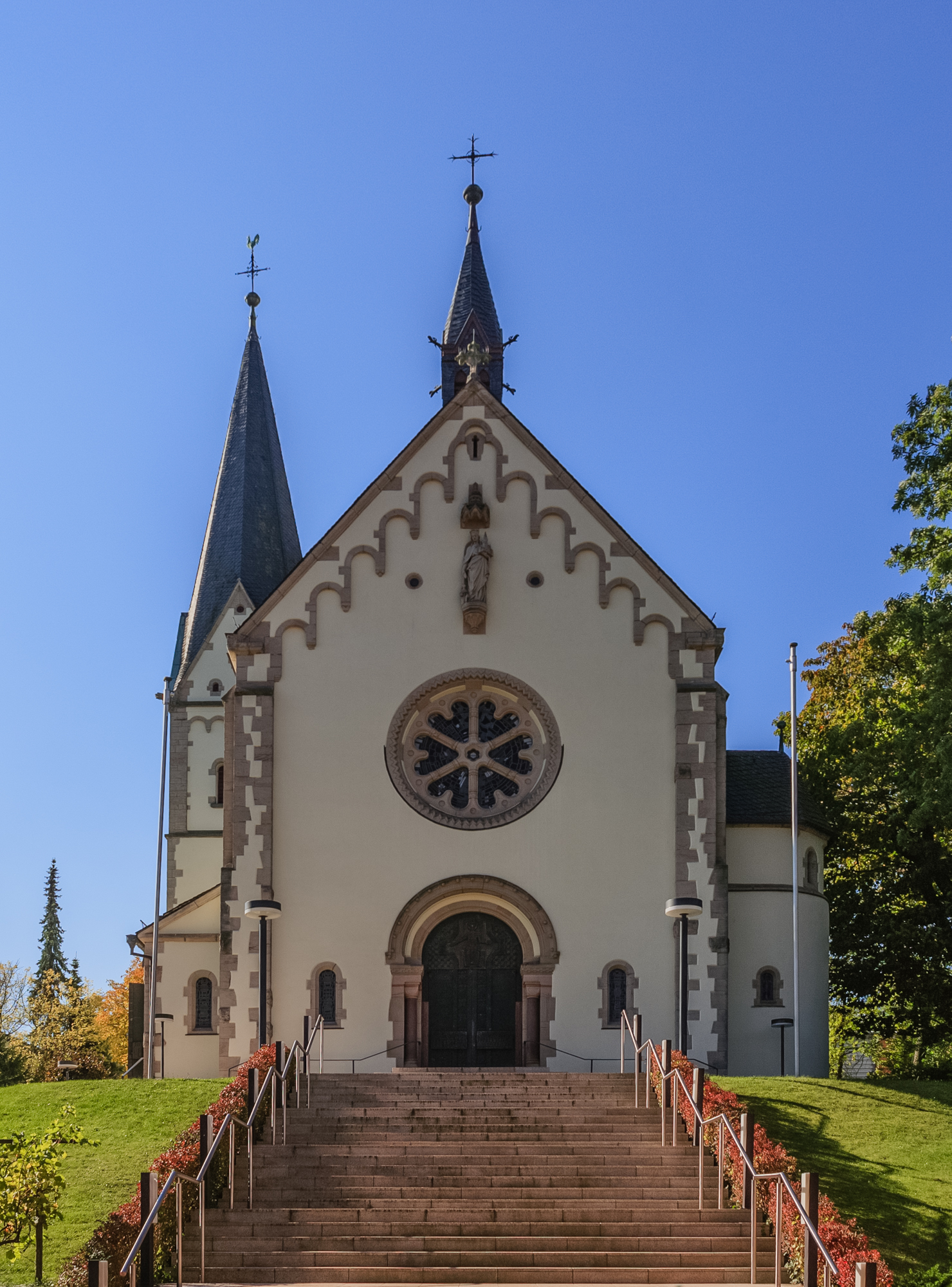 Roman-catholic church in the city of Eschwege, Hesse, Germany, Europe. Inauguration took place 1905.